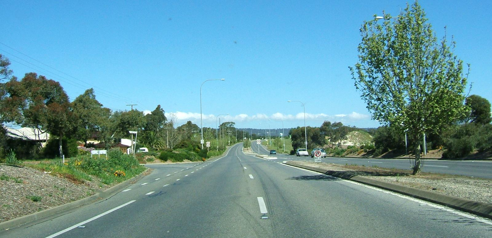 Flagstaff Hill Rd, Flagstaff Hill, South Australia